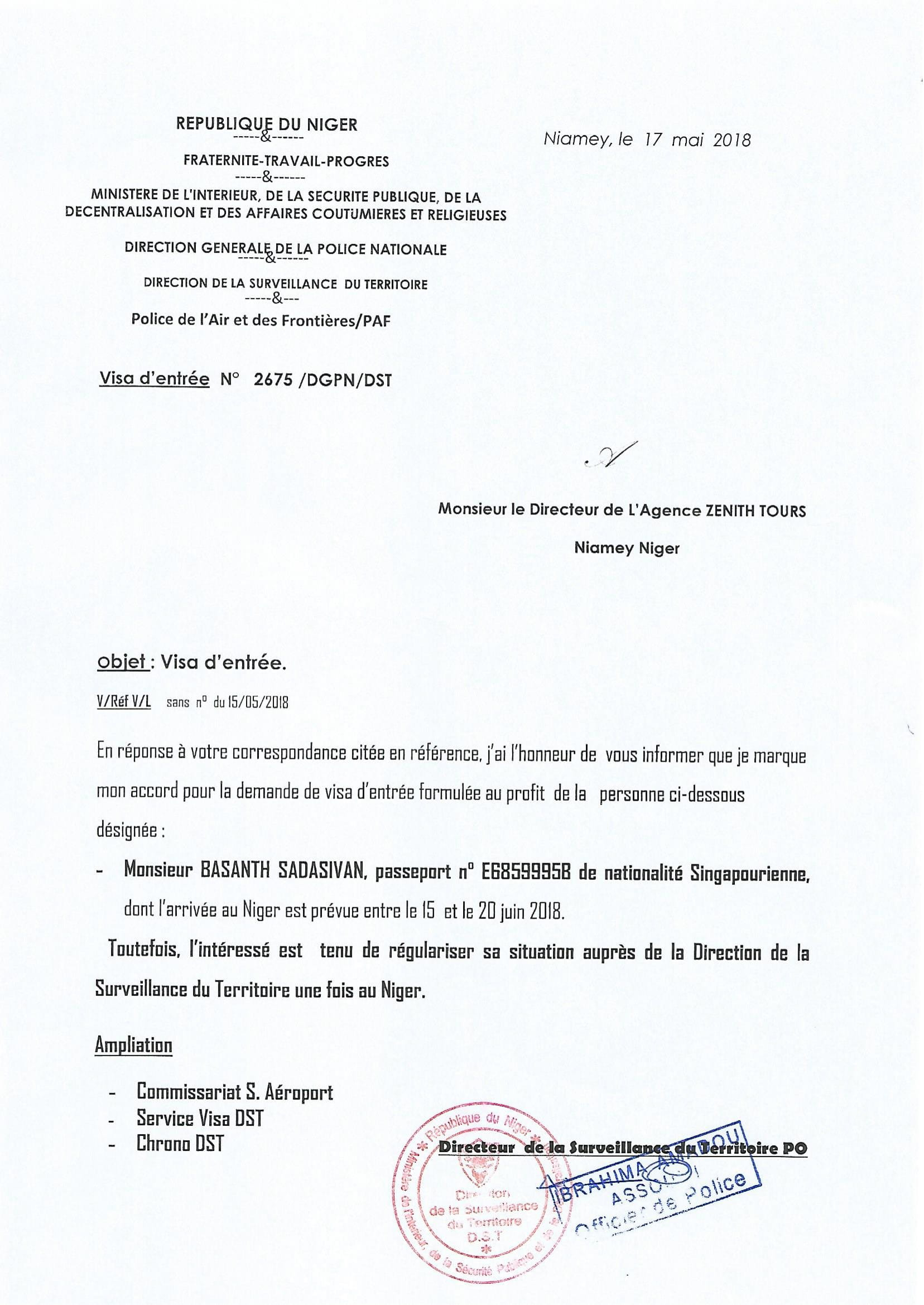 NigerLetter